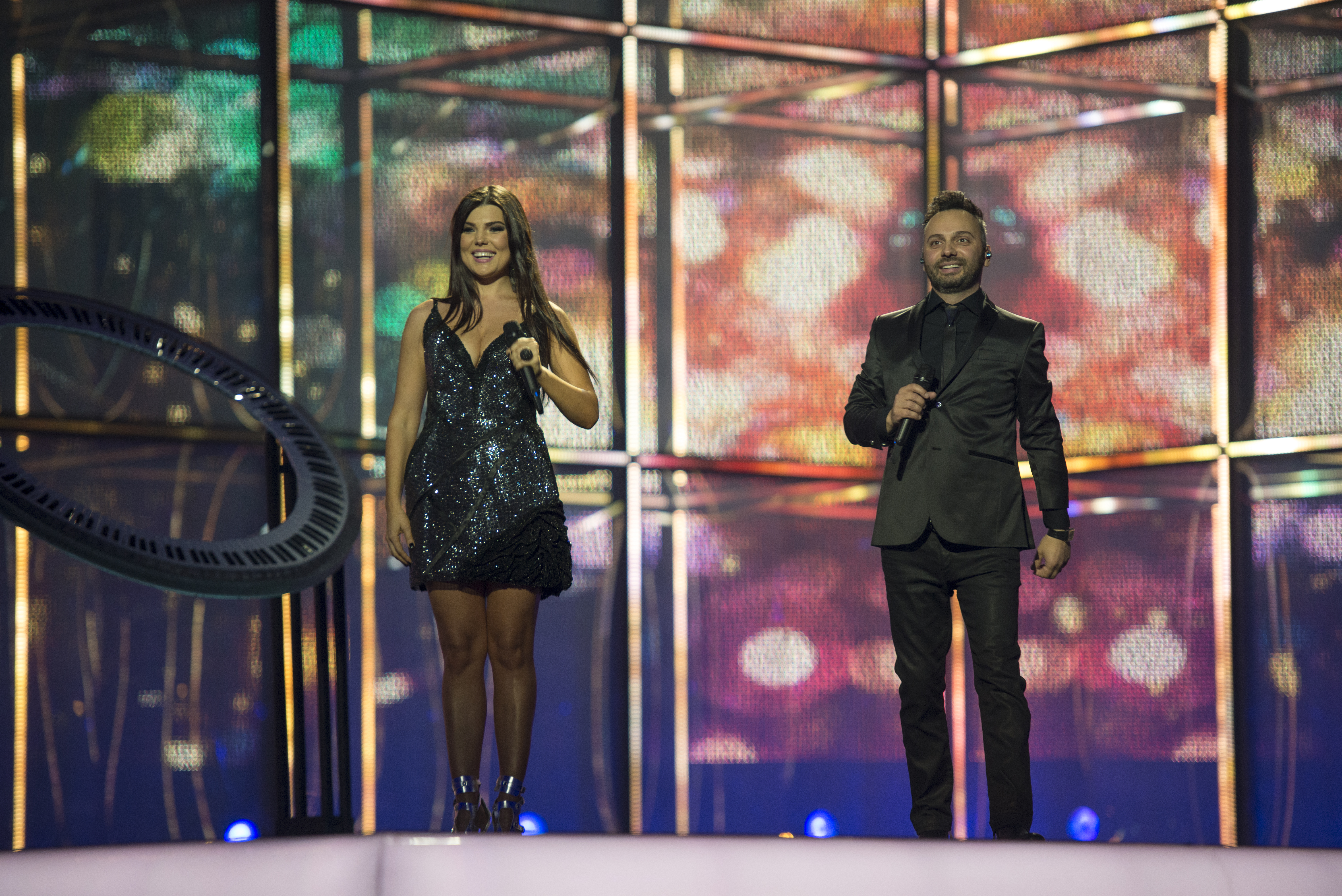 Paula Seling and Ovidiu Cernăuțeanu representing Romania with the song "Miracle" during the first dress rehearsal of the second semi final of the Eurovision Song Contest 2014 Copenhagen. (Help translate this text)